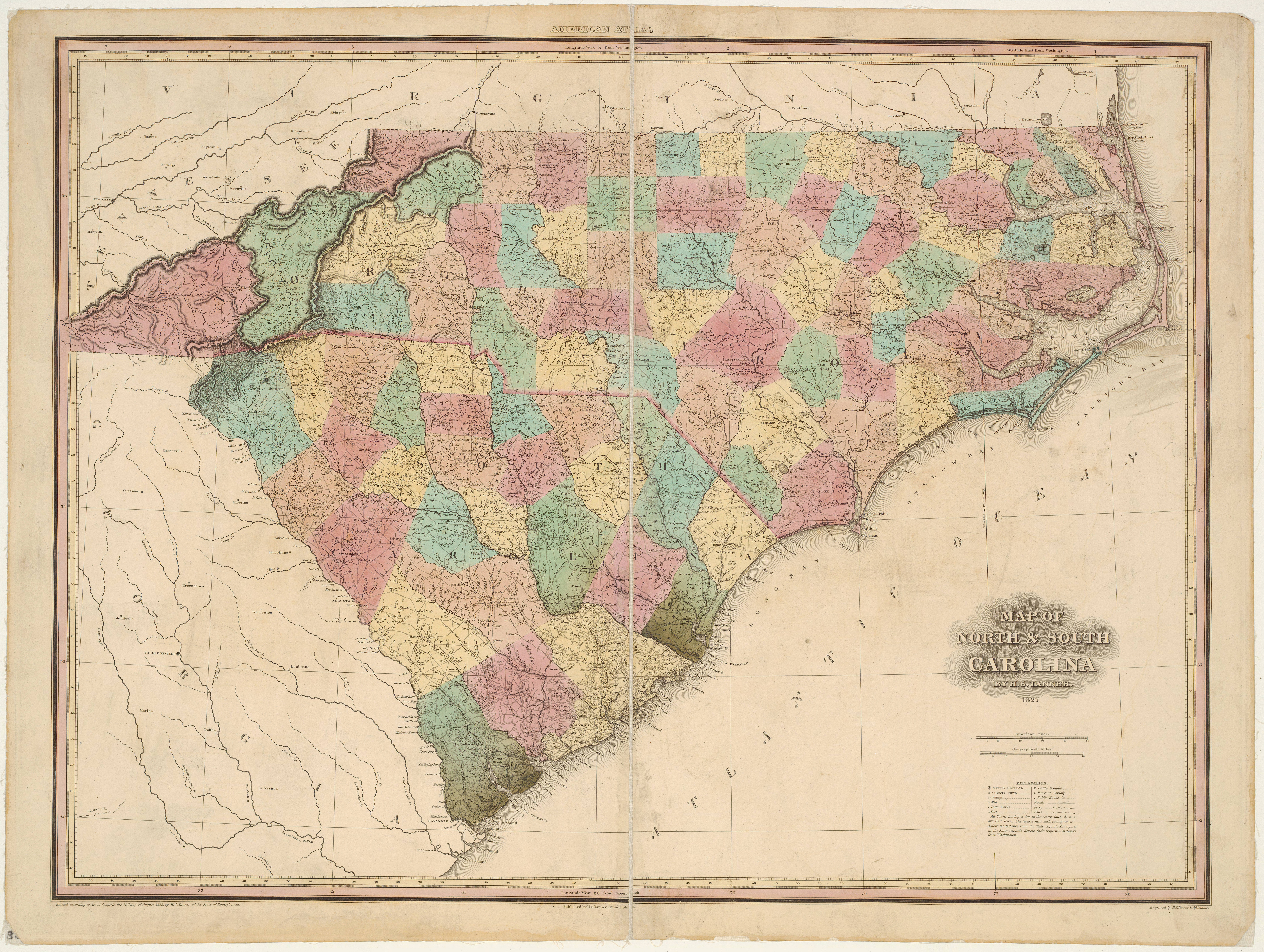 Map of North and South Carolina in 1827, indicating towns, mills, ironworks, public houses, churches, Quaker meeting houses, landowners, roads, and ferries.